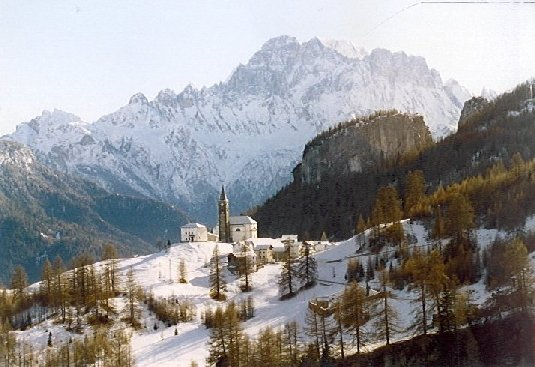 North face of Civetta, Dolomites, seen from Moè di Laste di Rocca Pietore